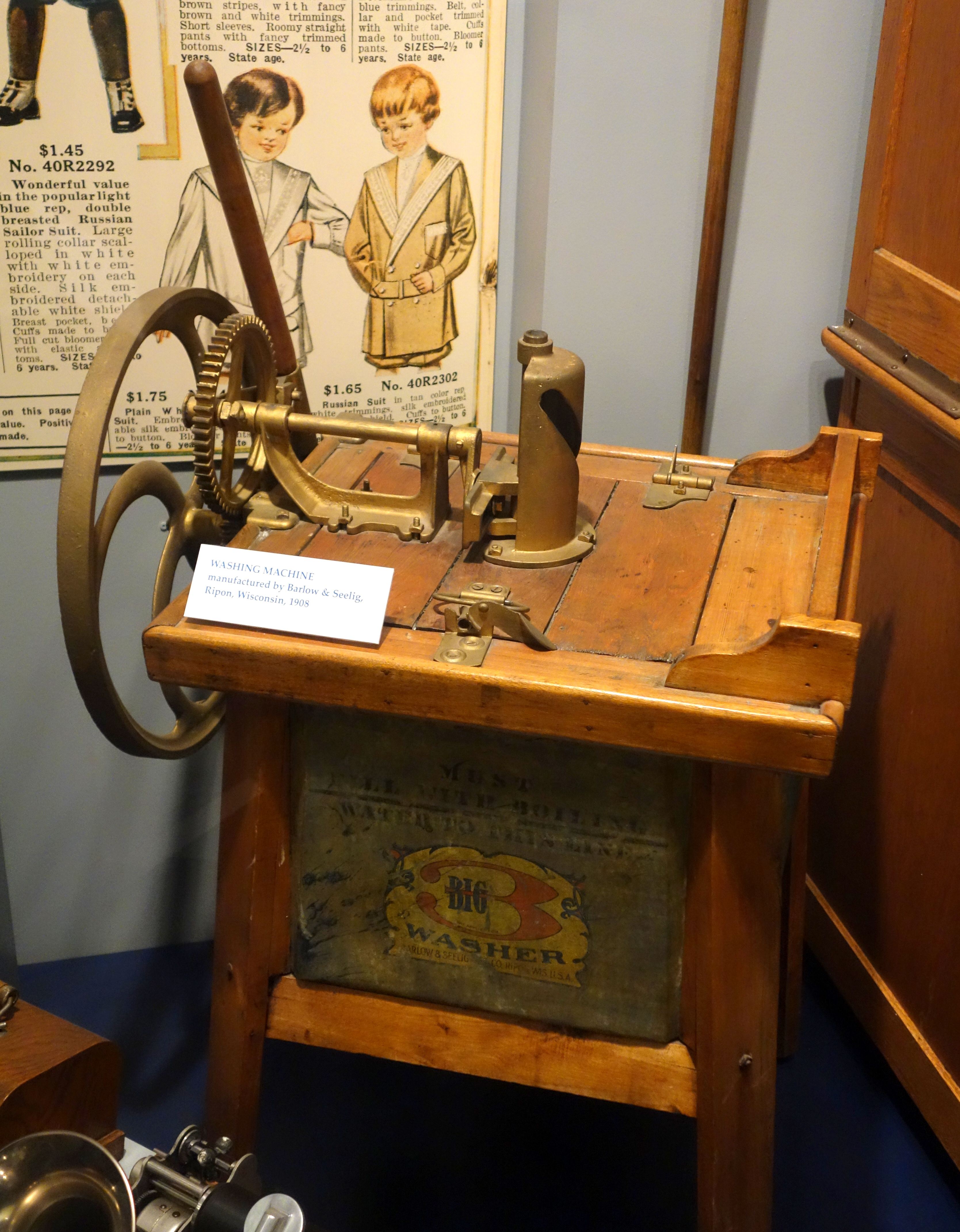 Exhibit in the Wisconsin Historical Museum, Madison, Wisconsin, USA. This item is old enough so that it is in the public domain.